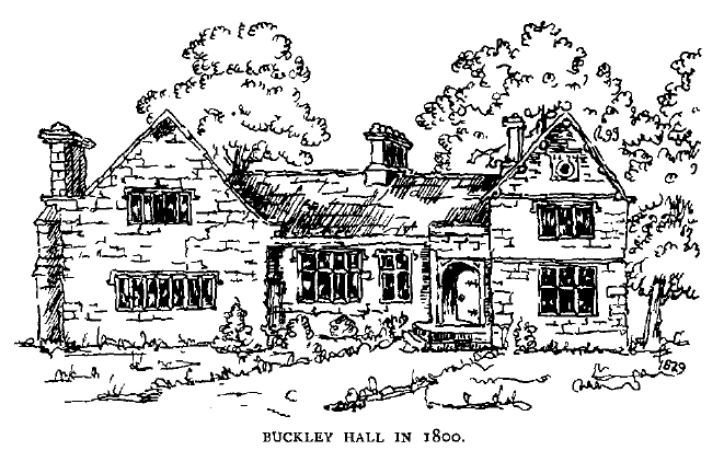 An illustration of Buckley Hall as it appeared in 1800. Buckley Hall was a mansion house of ancient origin, formerly in Wardleworth, Lancashire - now in Rochdale, Greater Manchester, in England.